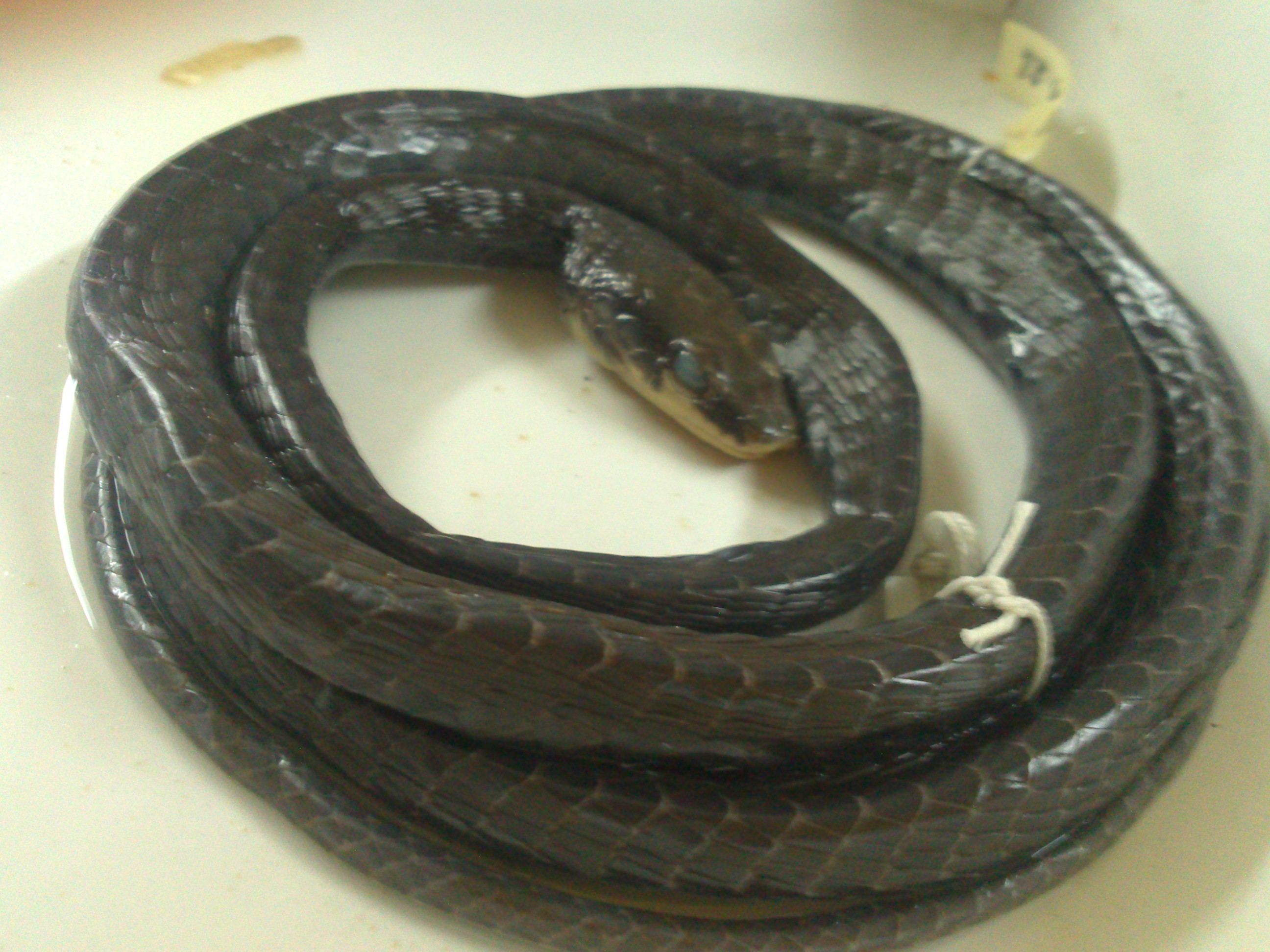 Nicobarese bronzeback tree snake in the specimens collection of the Bombay Natural History Society, Mumbai. Zoological name: Dendrelaphis humayuni. One of the taxa named for Humayun Abdulali, an Indian naturalist.